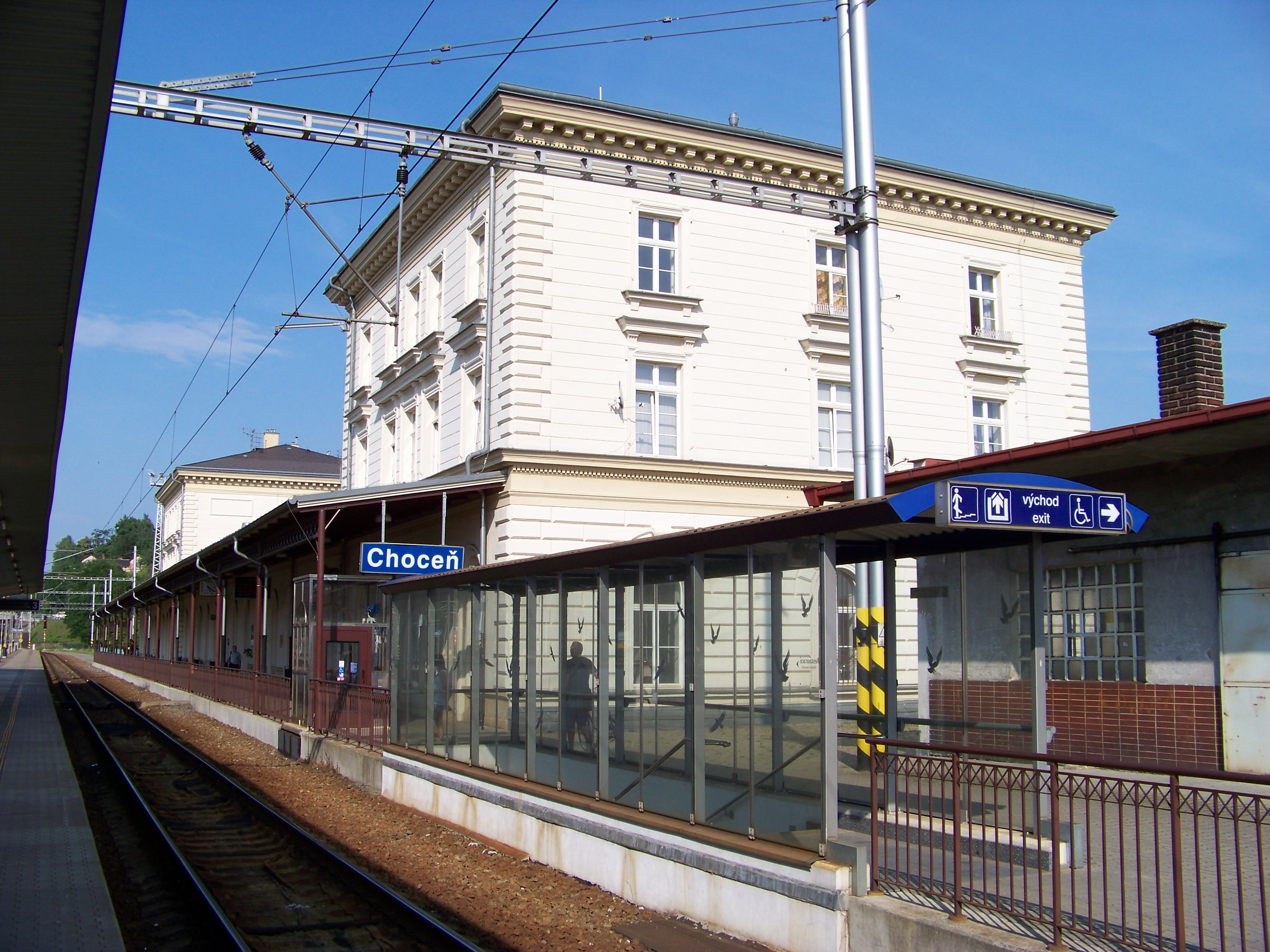 Choceň, Ústí nad Orlicí District, Pardubice Region, the Czech Republic. A train station.